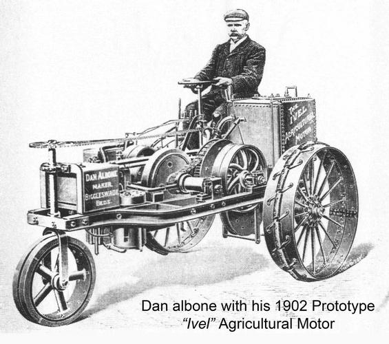 Dan Albone on his prototype Ivel Agricultural motor. Picture from North Bedfordshire Gazette, Friday, January 23, 1903.